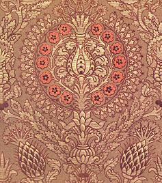 Detail of 16th century silk velvet on gold figured ground, from the Fortuny Collection